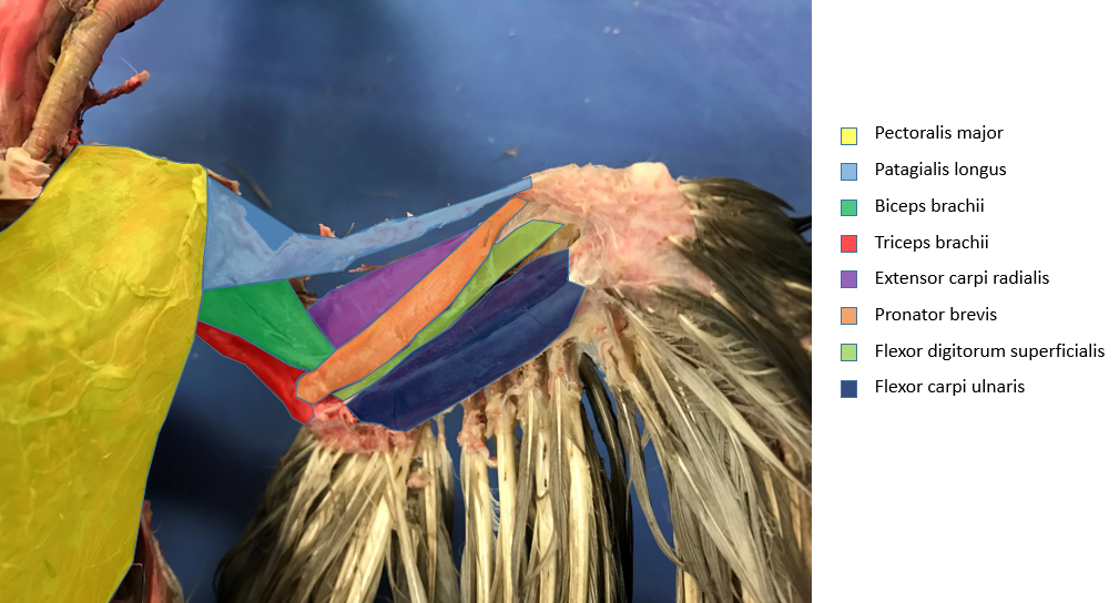 Eight labelled muscles on the ventral side of a dissected pigeon wing.